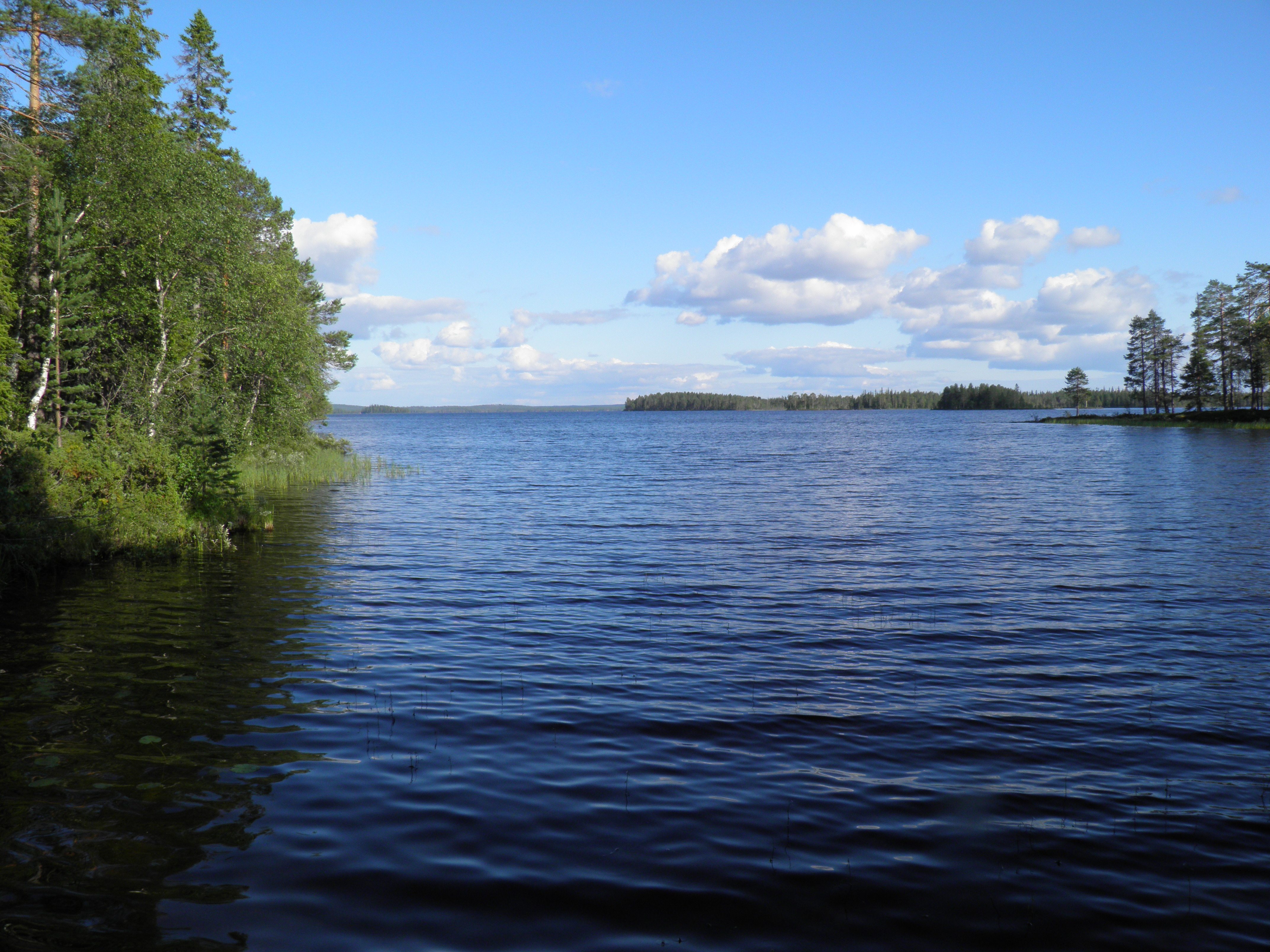 Lake Simojärvi, Ranua, Finland